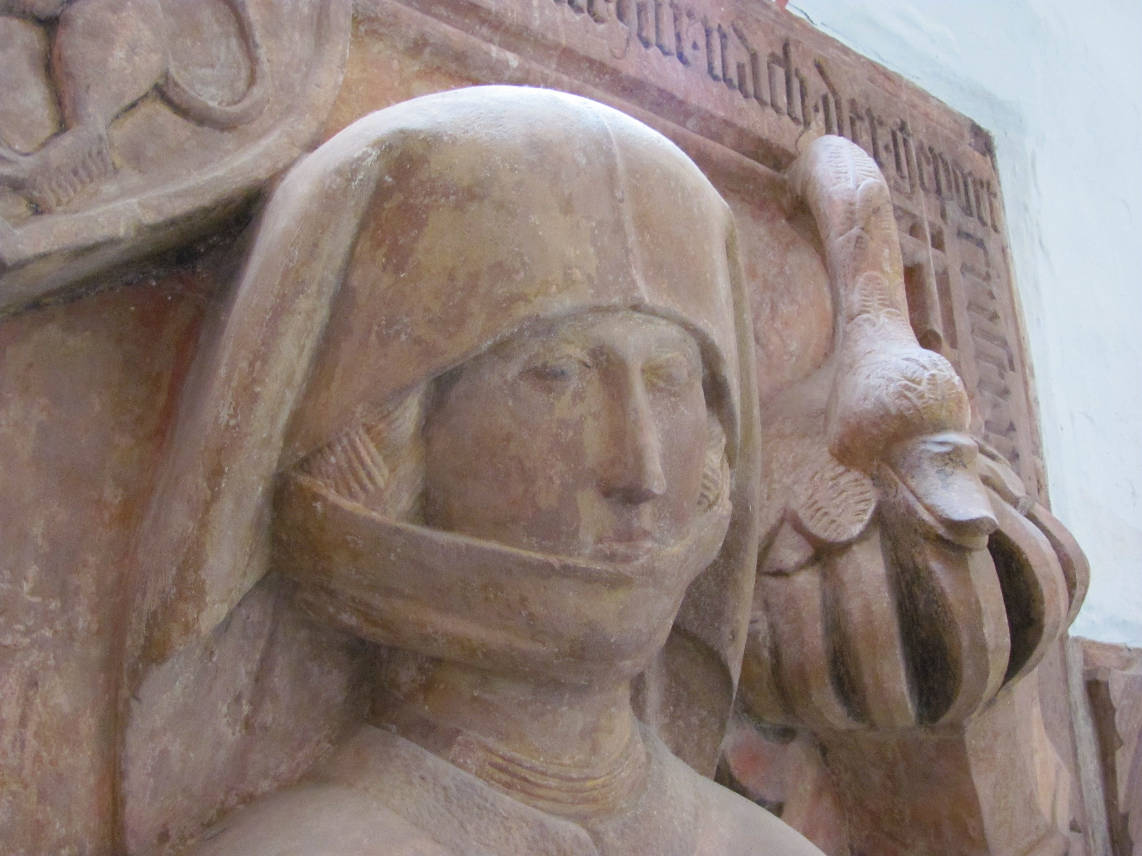 Anna of Lichtenberg